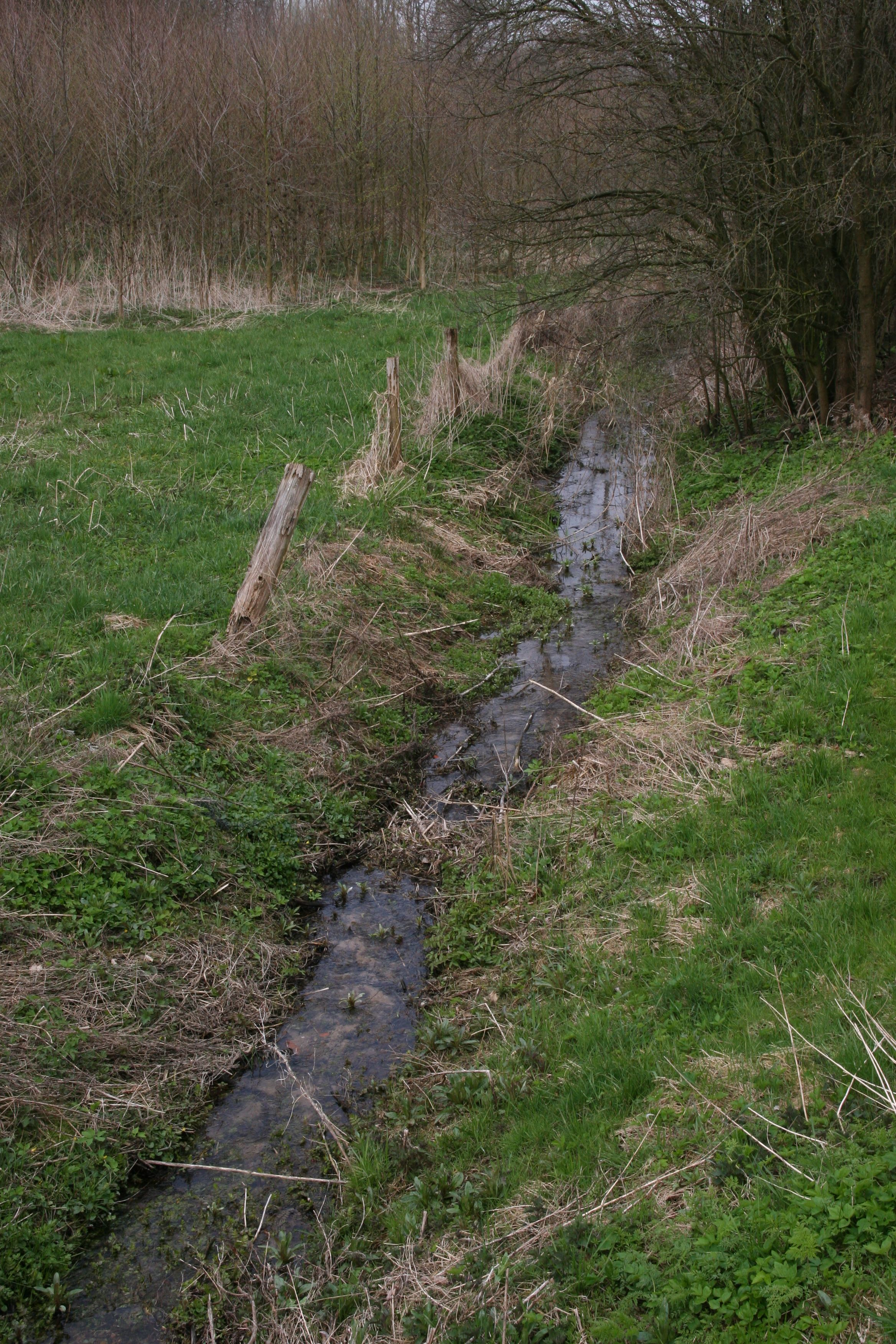 Ostercappeln-Oberhaaren: headwaters of the river Nette in Ostercappeln-Oberhaaren